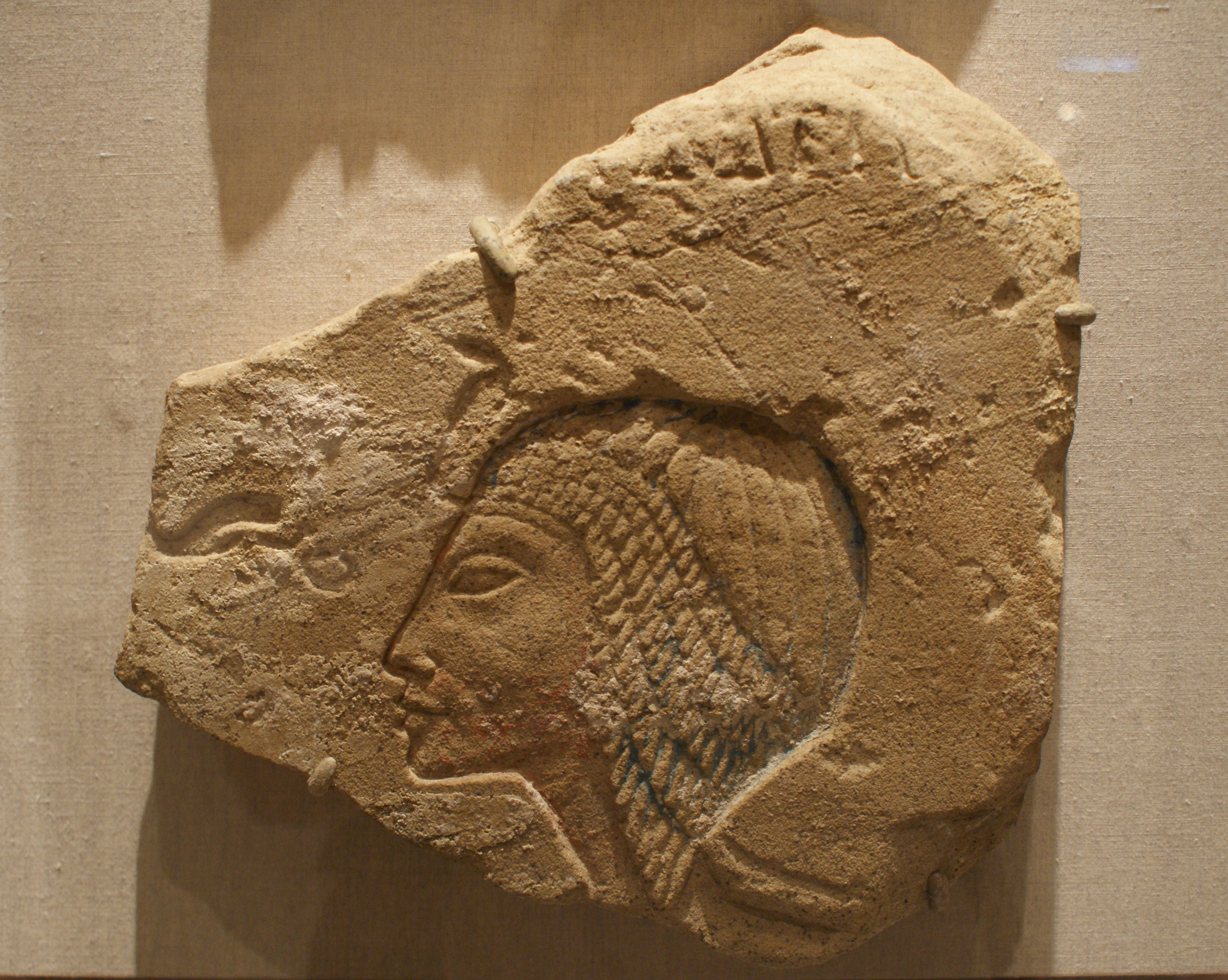 Late Image of Nefertiti, ca. 1352-1336 B.C.E. Sandstone. Brooklyn Museum, Gift of the Egypt Exploration Society, 35.1999.